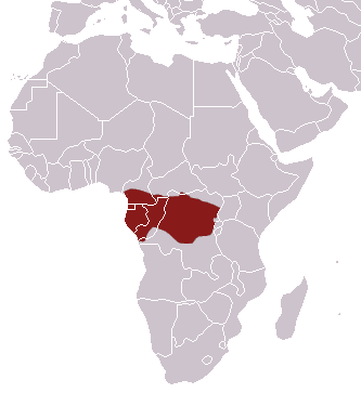 African Linsang (Poiana richardsonii) range